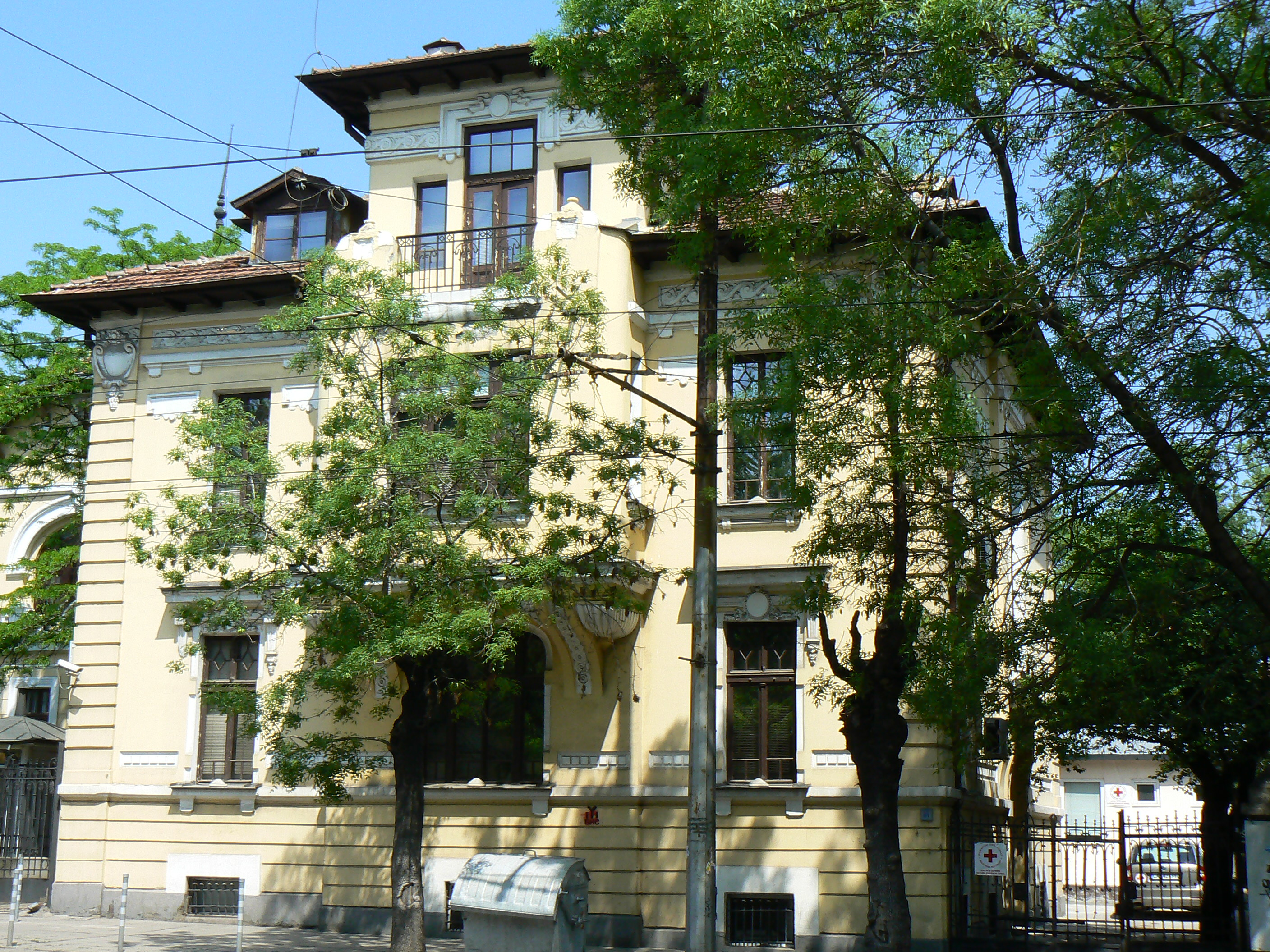 Sofia District Council of the Bulgarian Red Cross, 61 Dondukov Blvd., Sofia